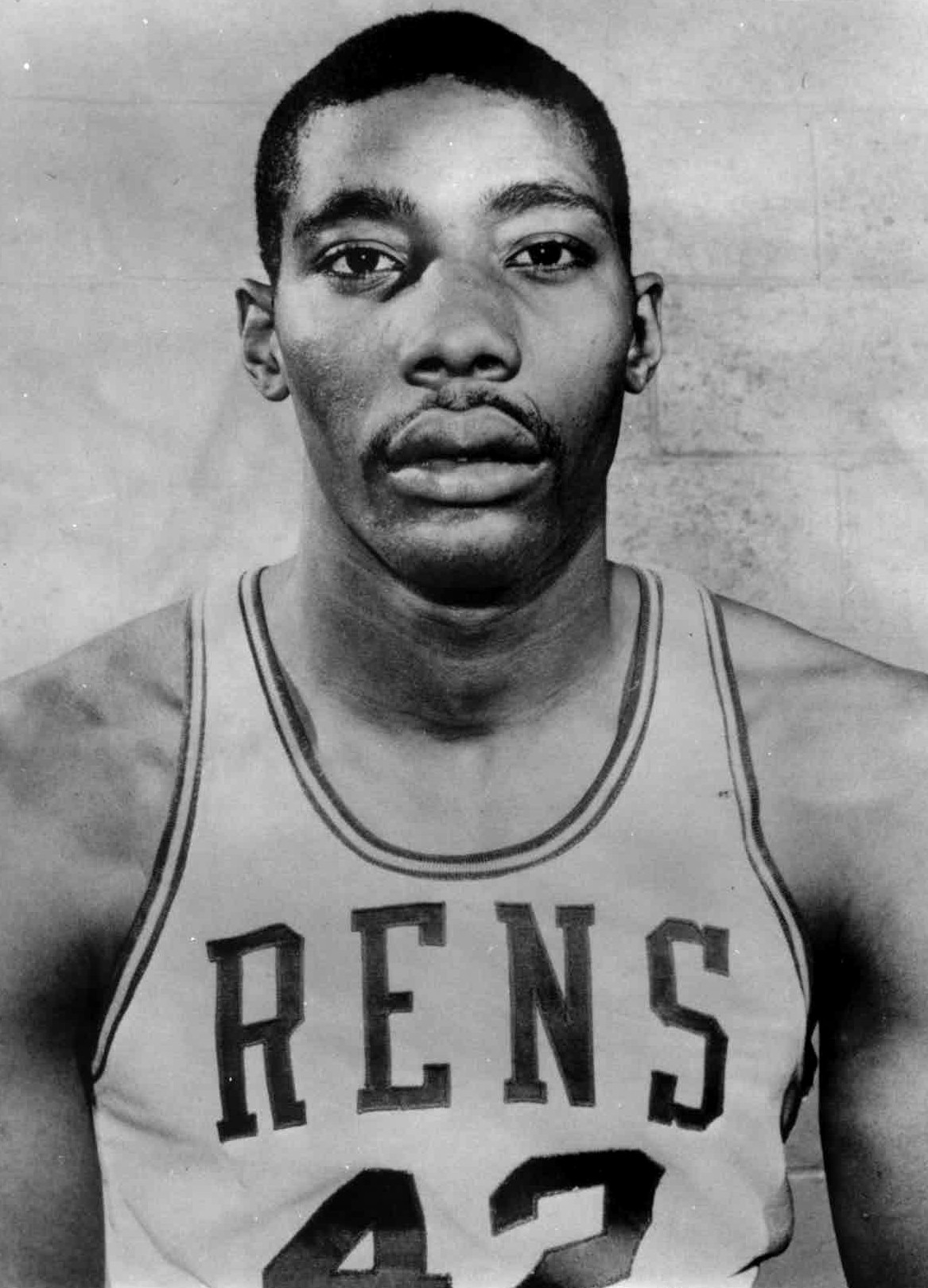 Professional basketball player Connie Hawkins